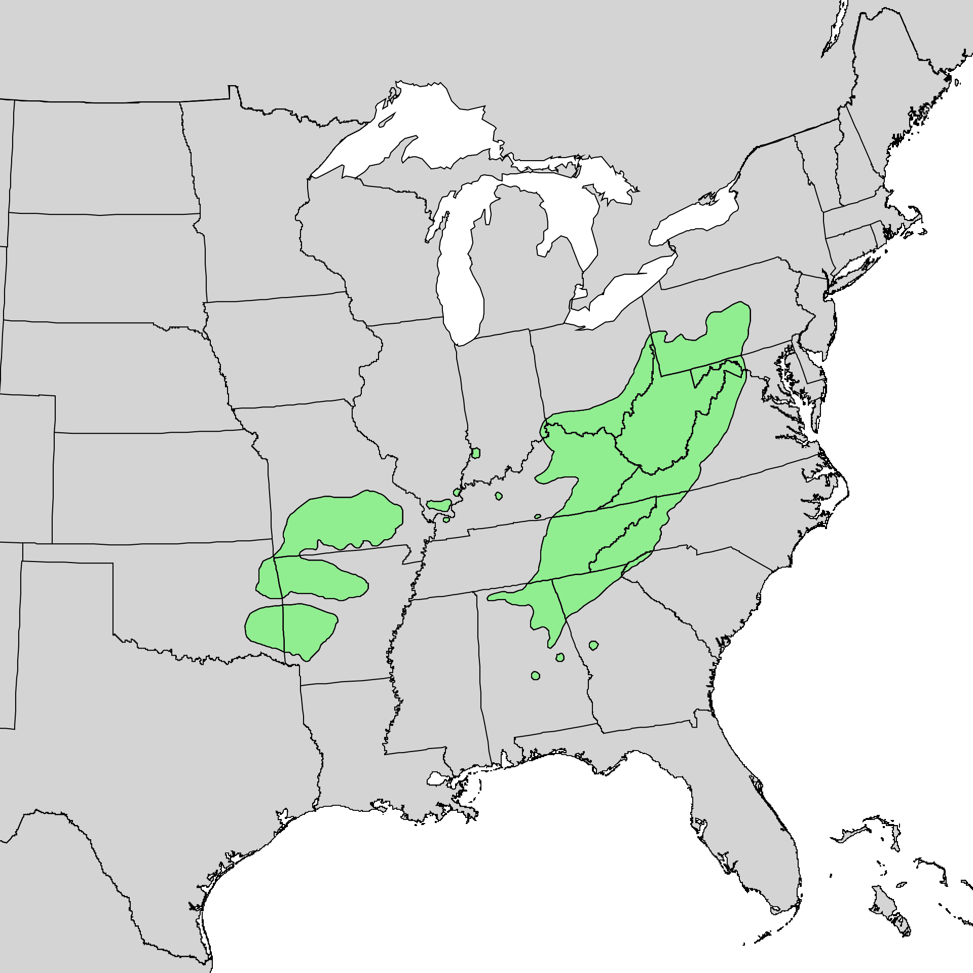 Natural distribution map for Robinia pseudoacacia, black locust